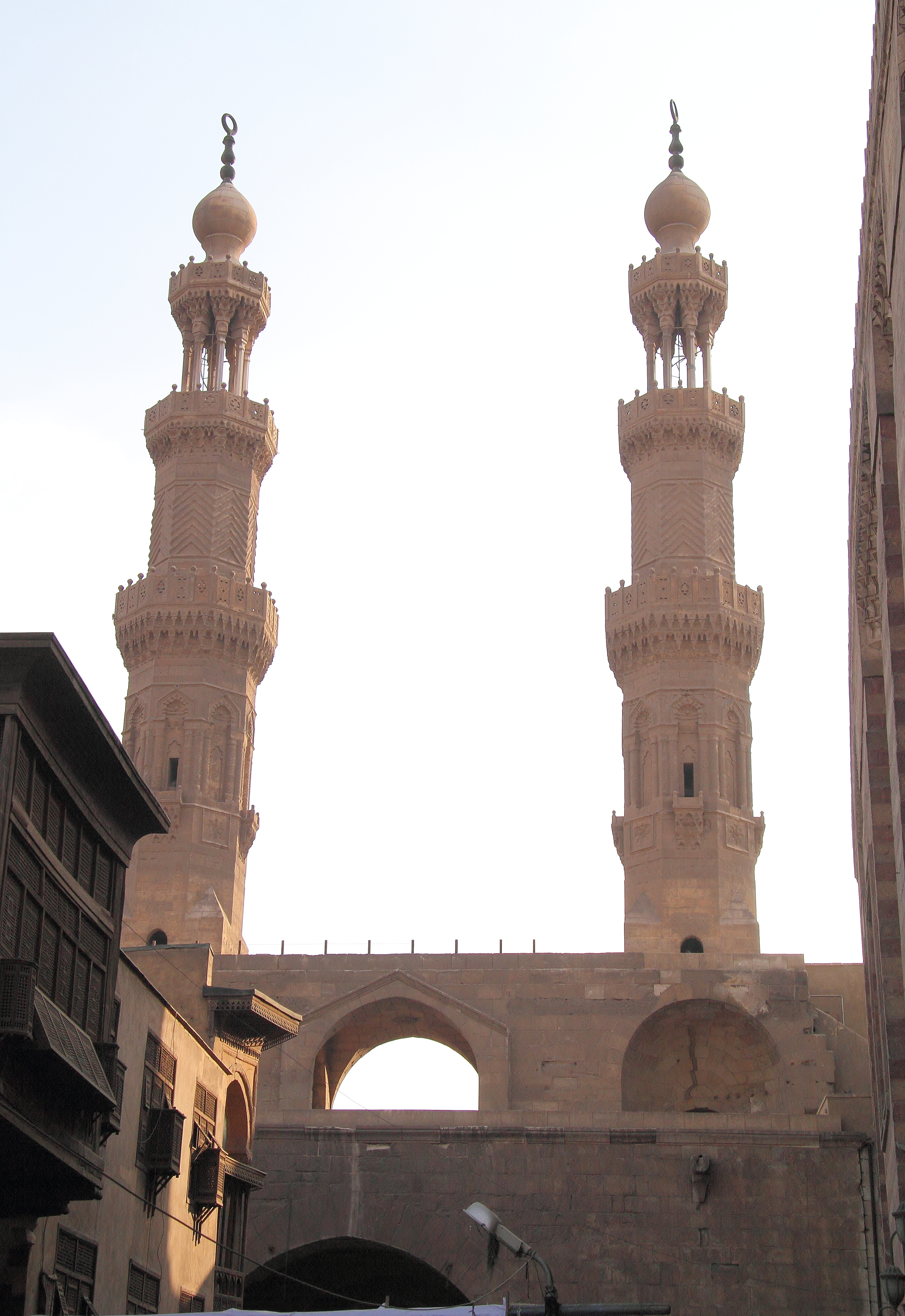 Cairo: the medieval city gate Bab Zuweila, seen from the north